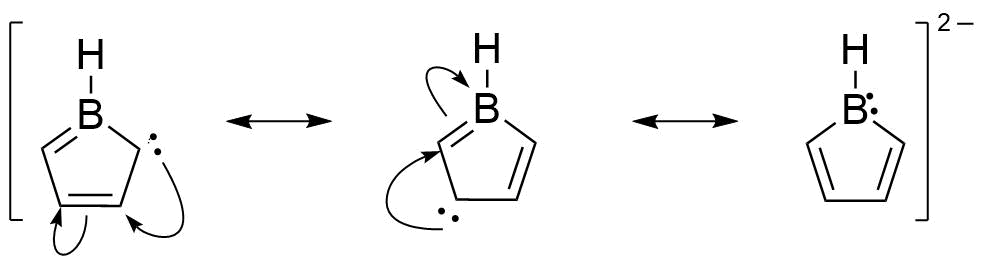 resoanance forms